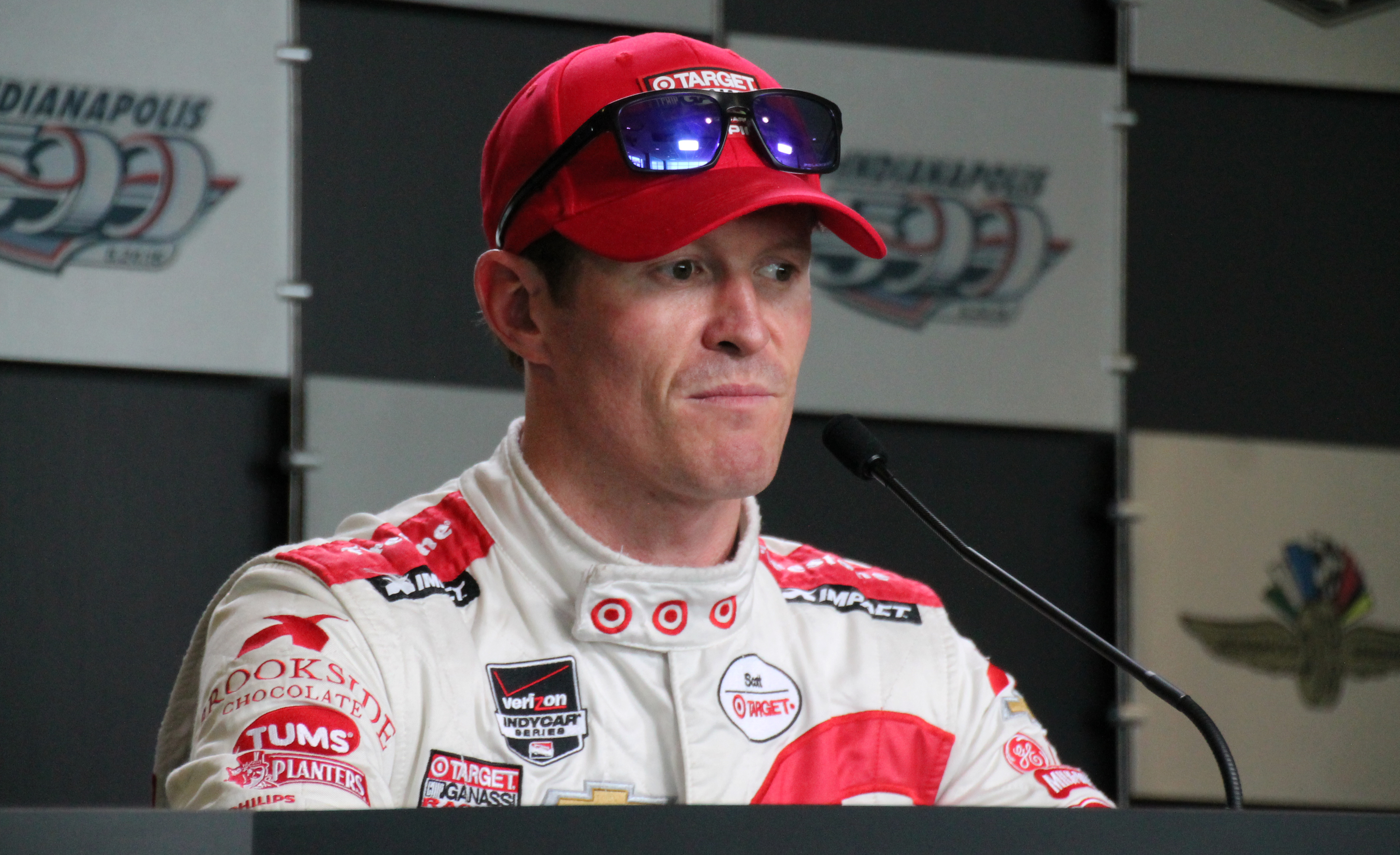 Scott Dixon at a press conference during Carb Day 2015 at the Indianapolis Motor Speedway.